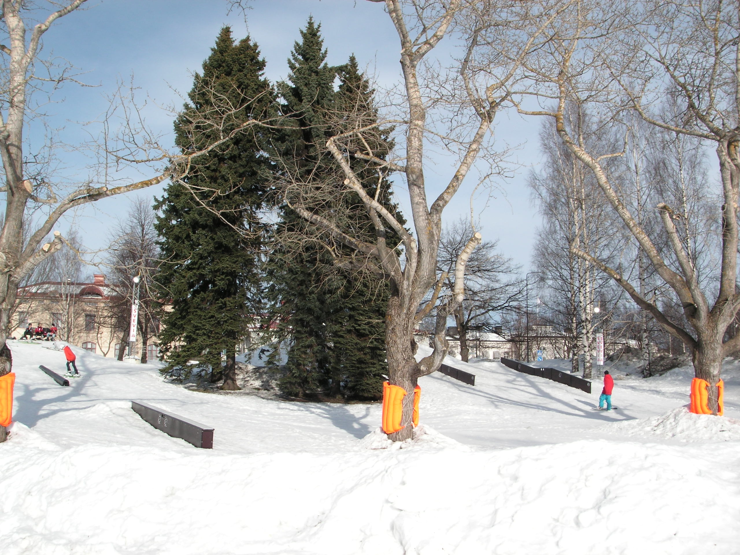 Broparken ("Bridge Park") in Umeå, Sweden.